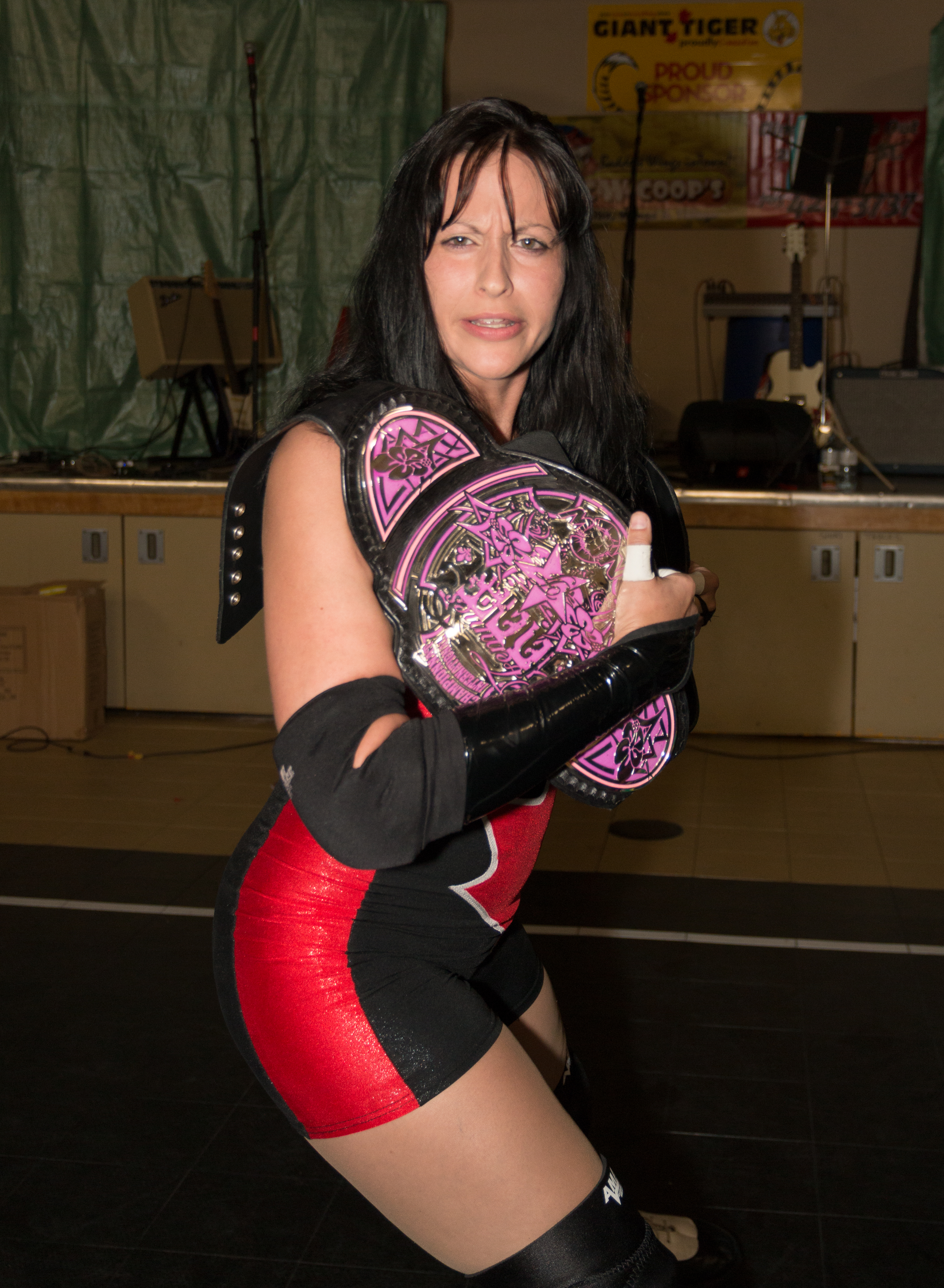 Independent wrestler Courtney Rush posing with the nCw Femme Fatales championship belt at an independent wrestling show in Angus, ON